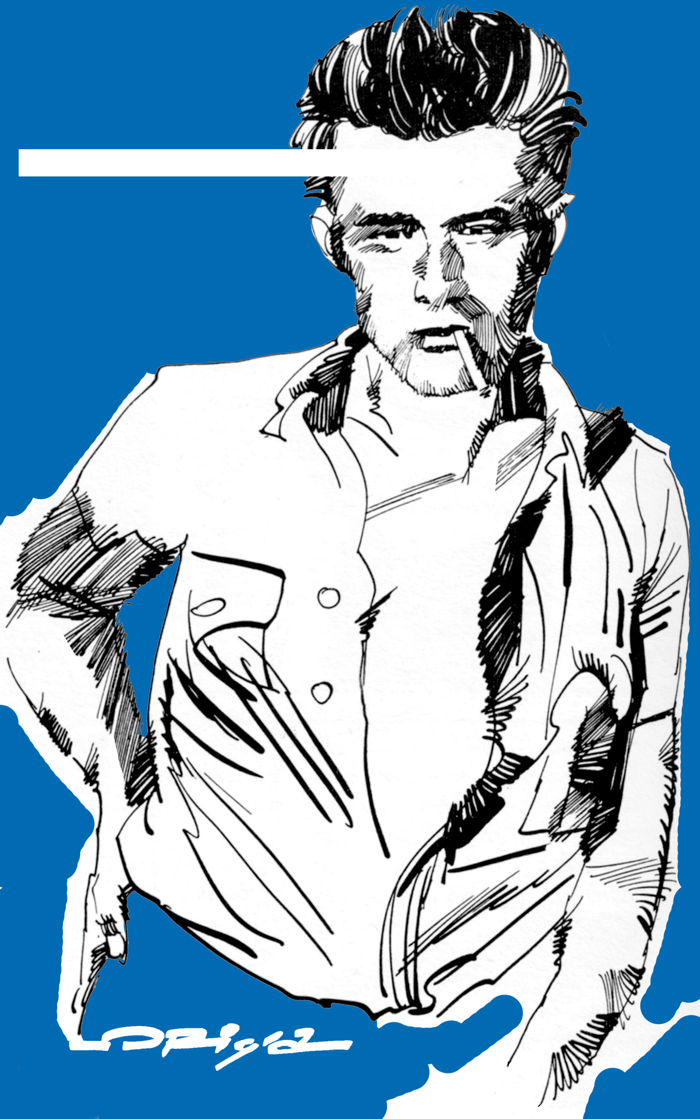 James Dean, portrait by italian artist Graziano Origa, pen&ink + pantone, 1975